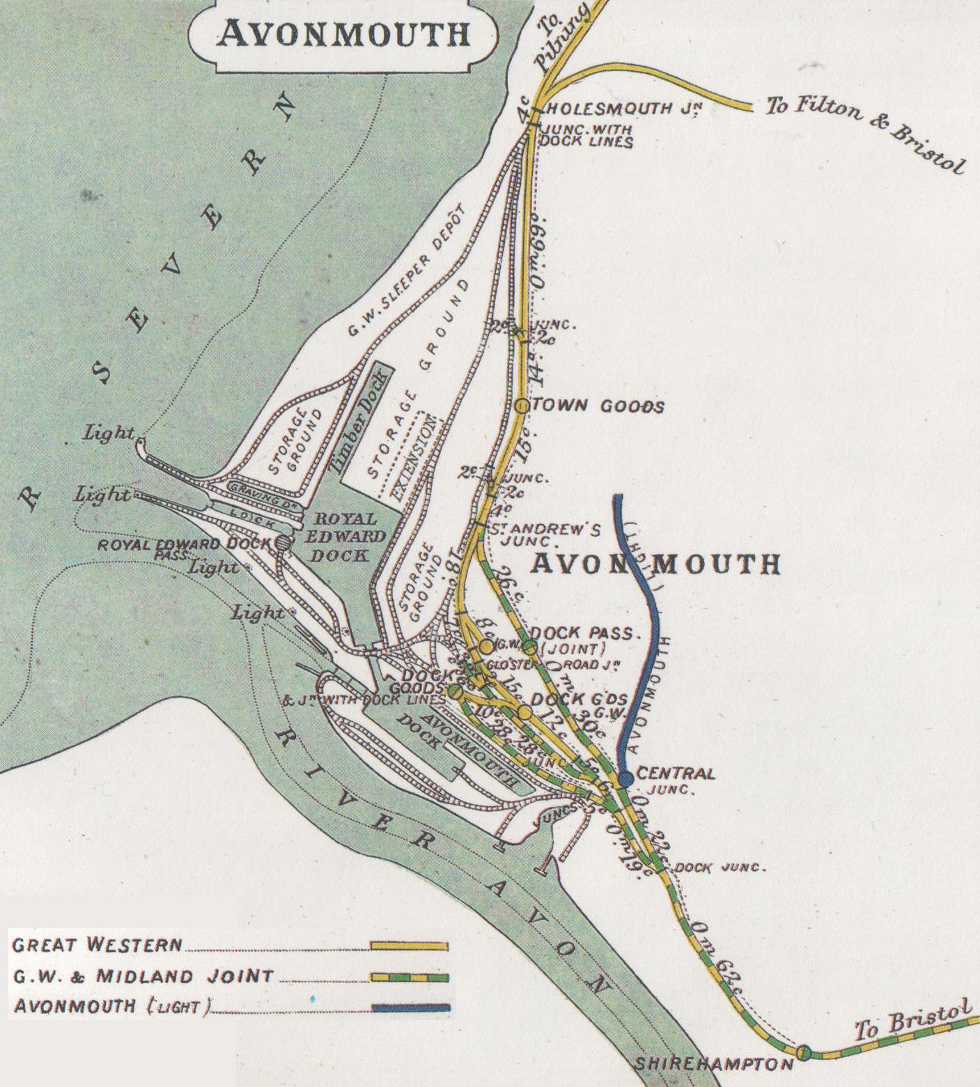 Railway diagram for Avonmouth, Bristol, from Railway Clearing House 1914. This is a retouched picture, which means that it has been digitally altered from its original version. Modifications: Cropped to Avonmouth side only, moved legend. The original can be viewed here: Portishead Avonmouth RJD 157.jpg: . Modifications made by Mattbuck.